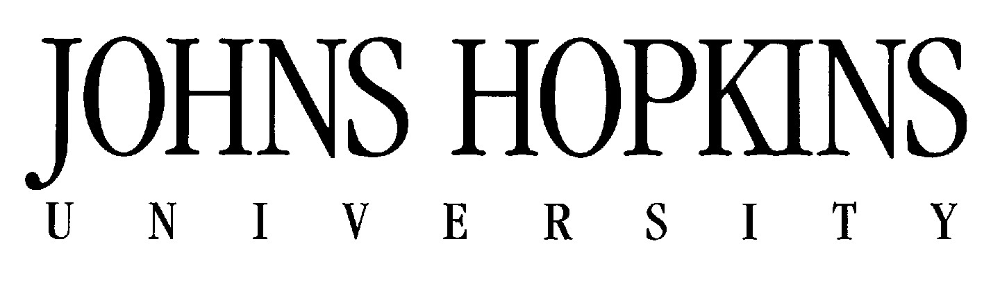 The logo of Johns Hopkins University.